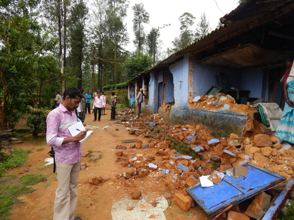 Elephant damages to a residential colony in the Valparai region.